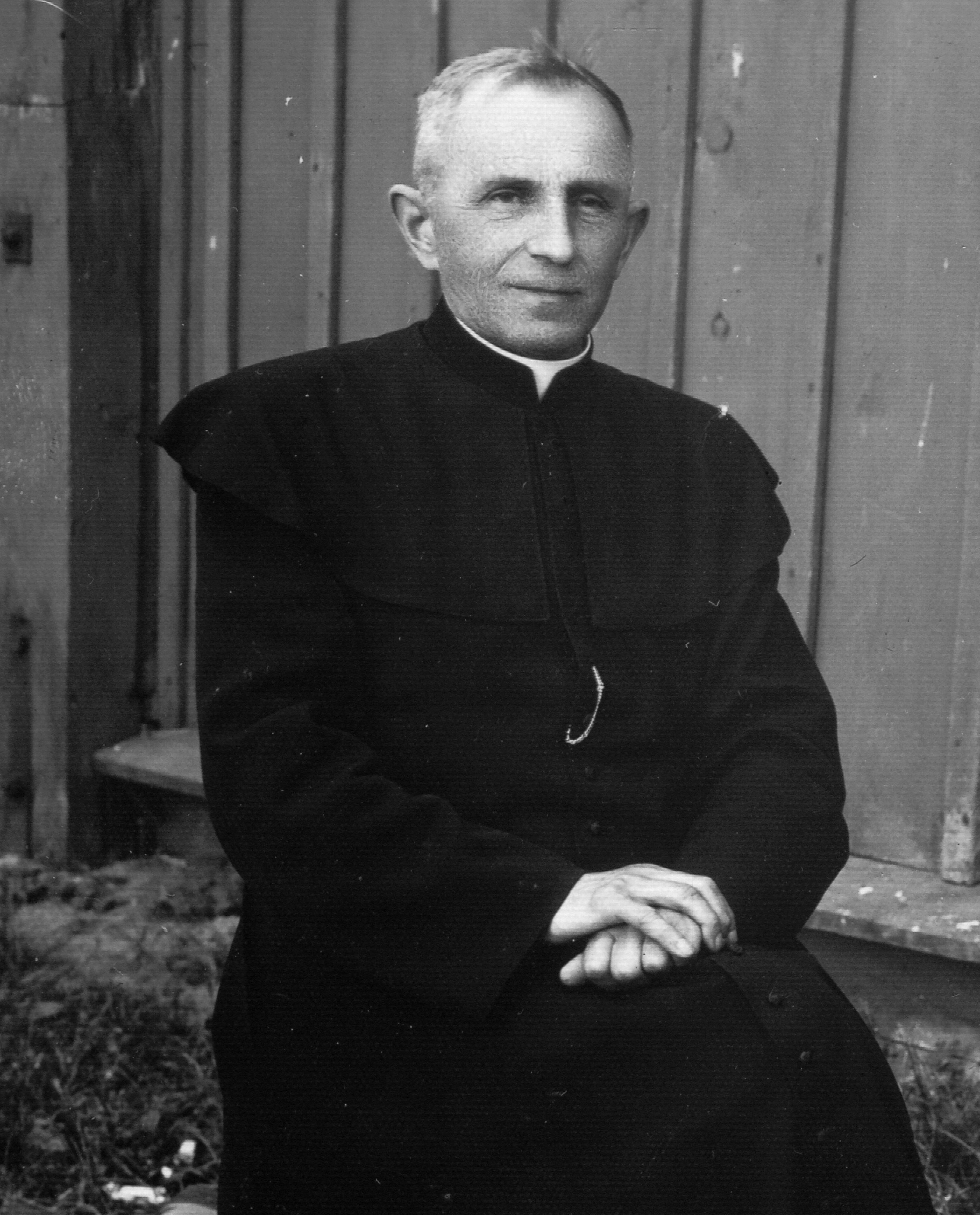 Portrait of a priest, father Mieczysław Rossowski